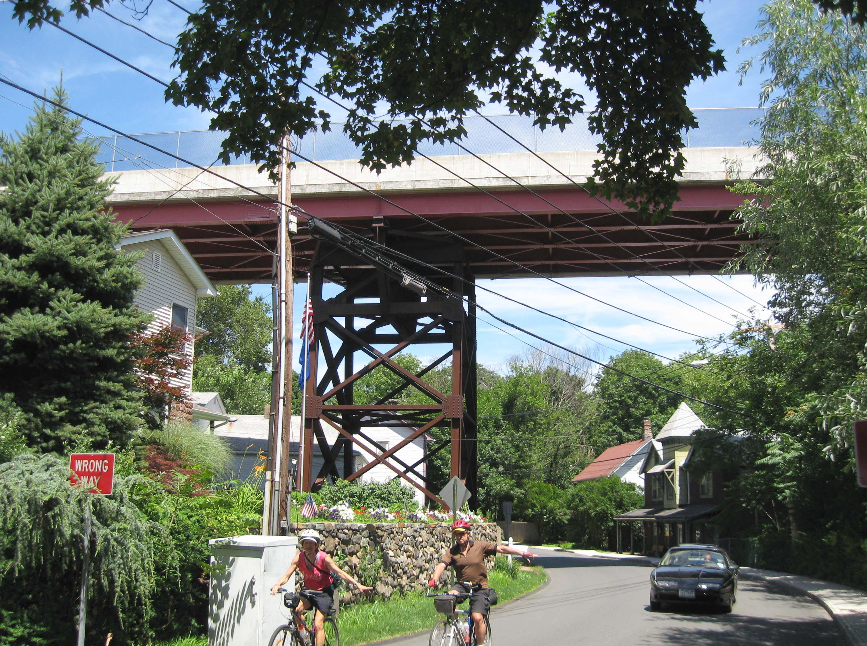 Looking northeast down Piermont Avenue in Sparkill, New York at US Highway 9W viaduct and towards Piermont on a sunny midday.